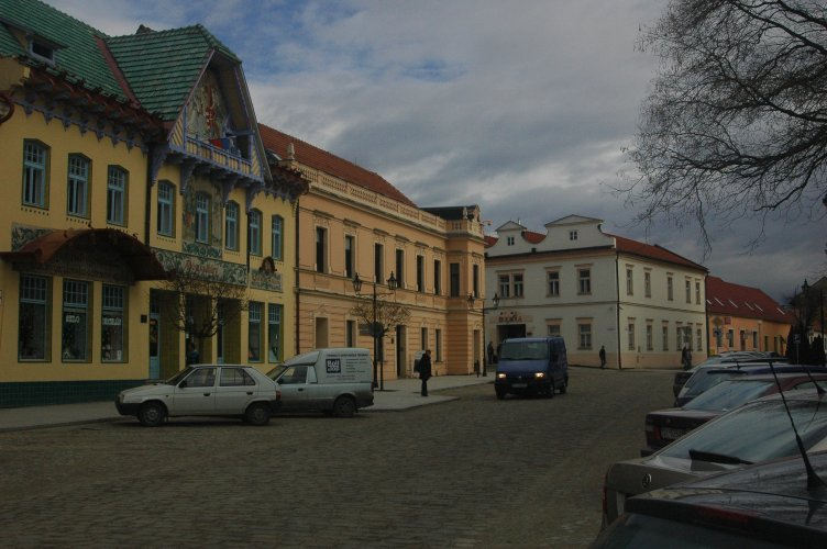 City centre, Skalica, Slovakia